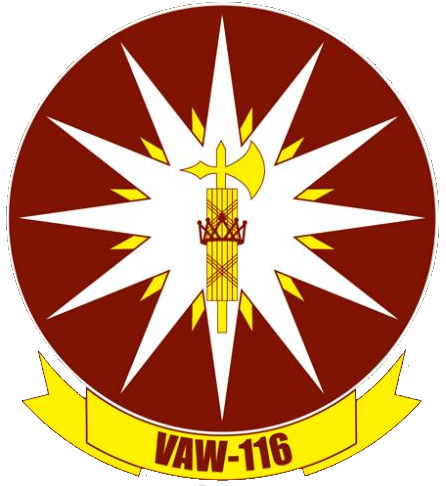 Insignia of the U.S. Navy Carrier Airborne Early Warning Squadron 116 (VAW-116) "Sun Kings".